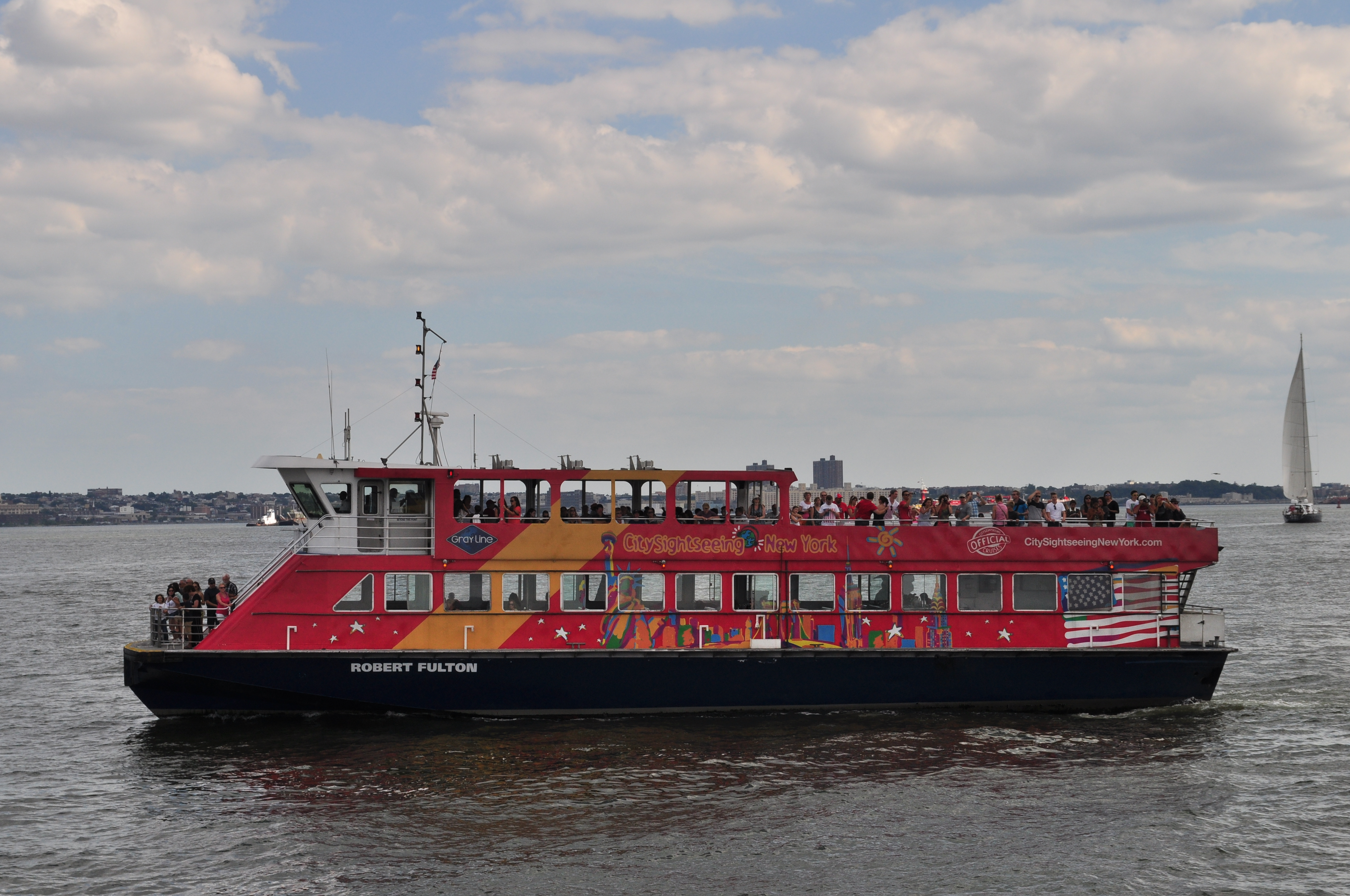 Gray Line boat Robert Fulton seen from New York Water Taxi in New York Harbor.